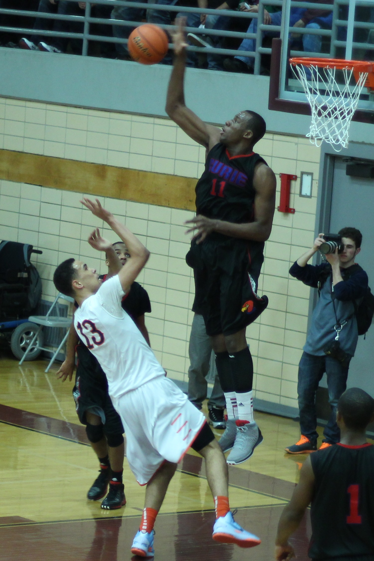 Cliff Alexander blocks Paul White